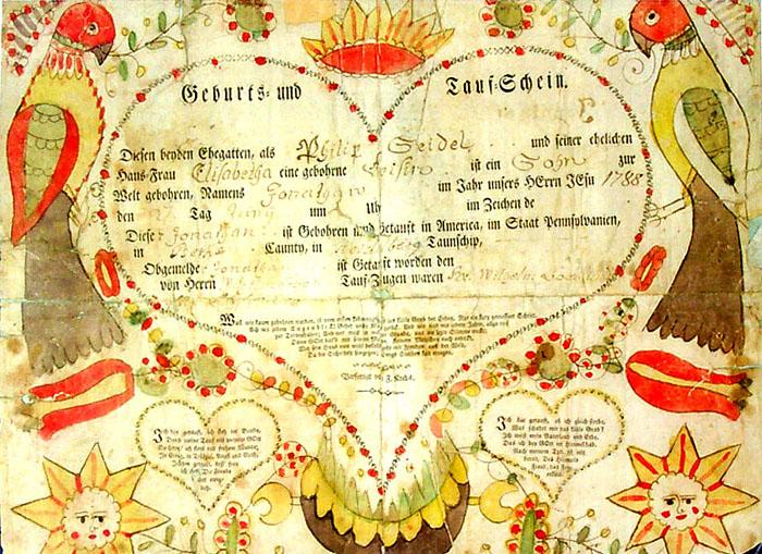 A Pennsylvania German fraktur Taufschein. From 1788.